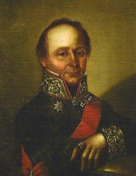 Mironov Ivan Semenovich